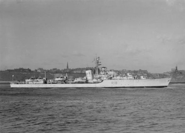 IWM caption : HMS ST KITTS leaving the River Tyne. Tynemouth and Collingwood Memorial clearly visible